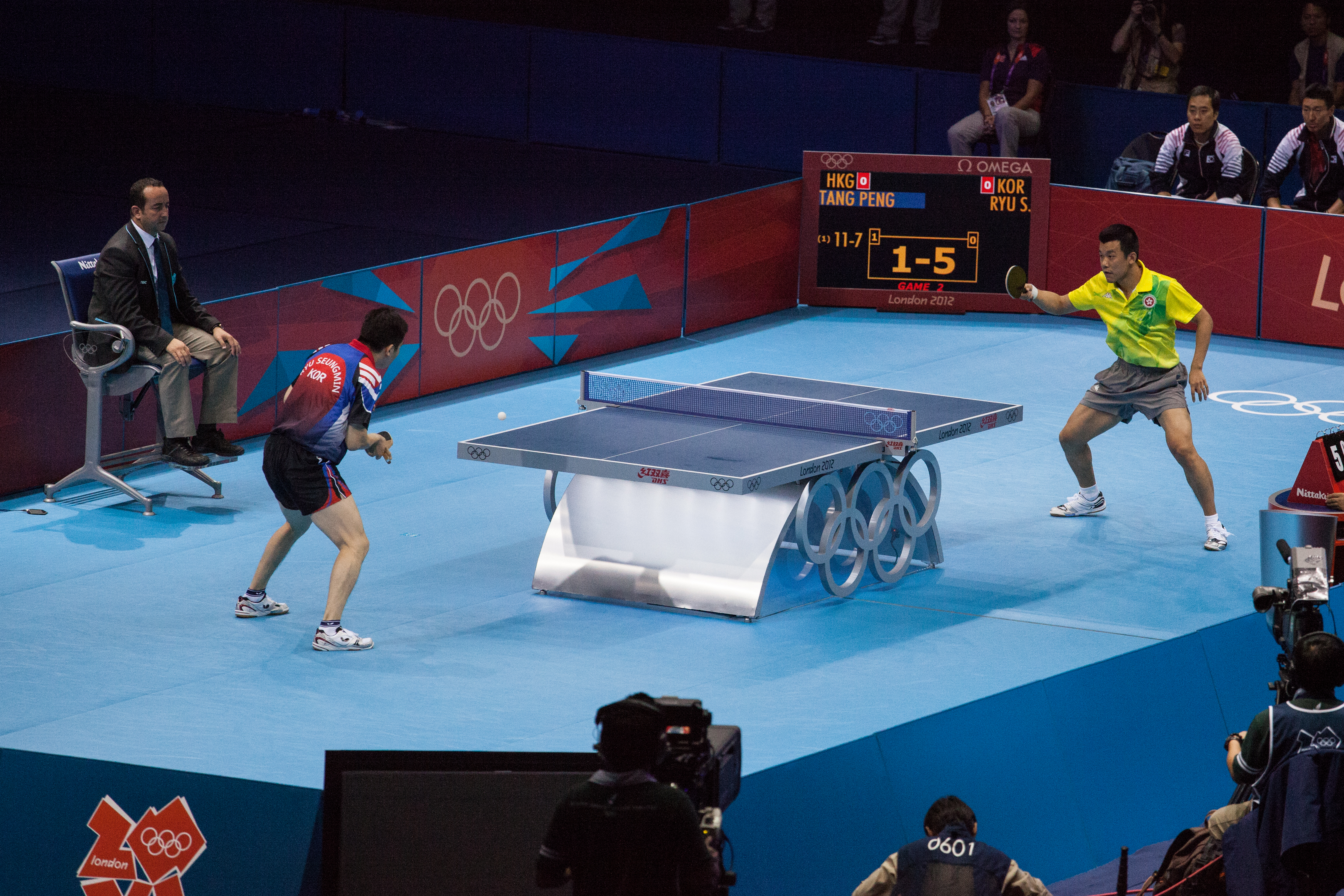 Tang Peng vs Ryu Seung-Min, Summer Olympics 2012.